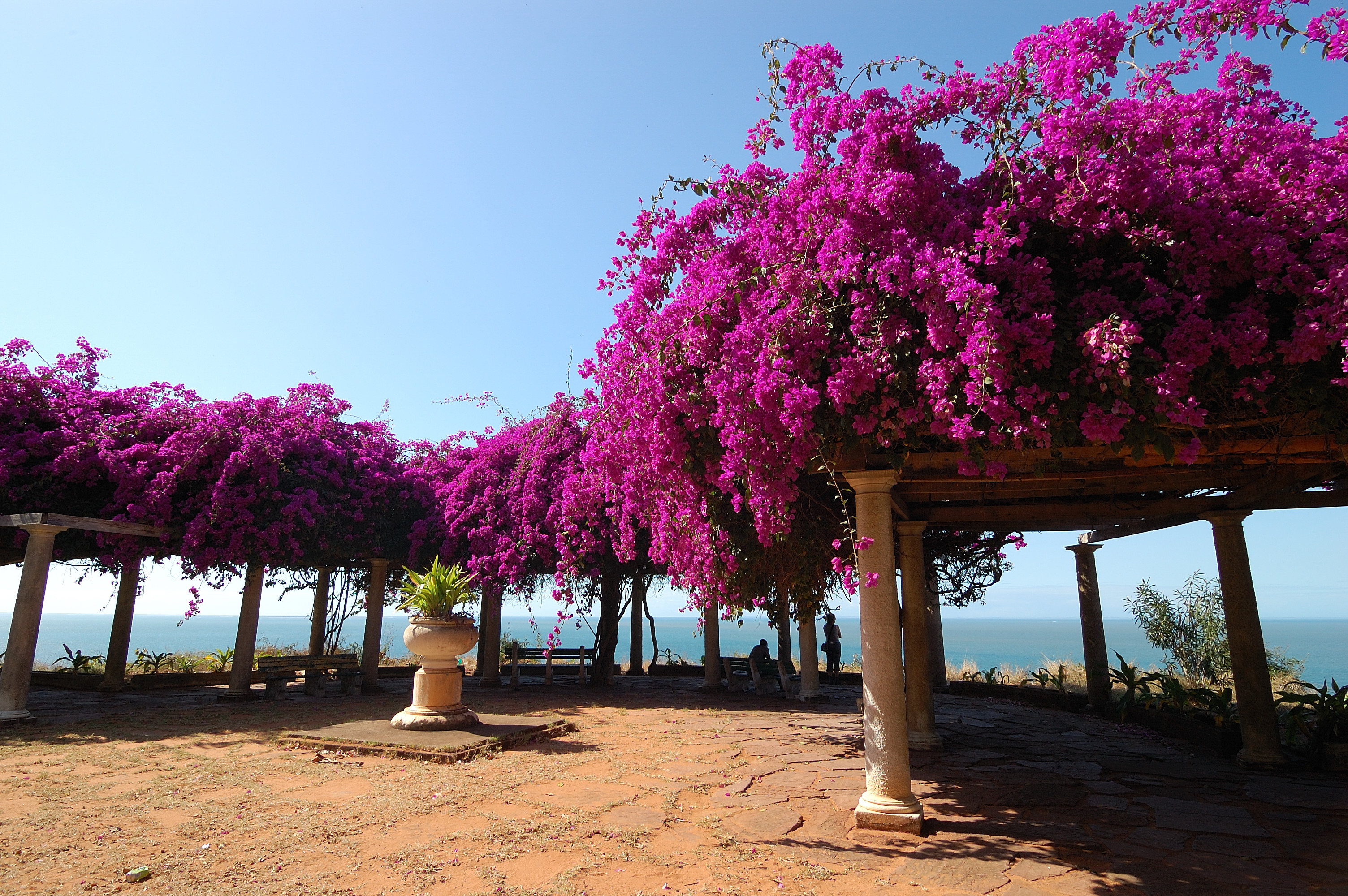 Flowered Maputo, Mozambique